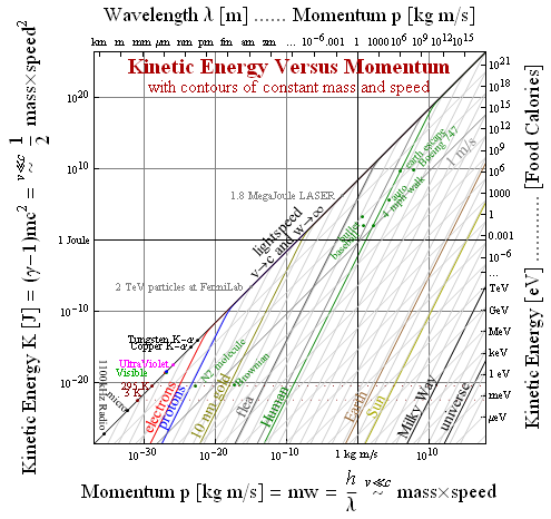 This plot of kinetic energy versus momentum has a place for most moving objects encountered in everyday life. It shows objects with the same kinetic energy (horizontally related) that carry different amounts of momentum, as well as how the speed of a low-mass object compares (by vertical extrapolation) to the speed after perfectly inelastic collision with a large object at rest. Highly sloped lines (rise/run=2) mark contours of constant mass, while lines of unit slope mark contours of constant speed. The plot further illustrates where lightspeed, Planck's constant, and kT figure in. (Note: the line labeled universe only tracks a mass estimate for the visible universe.)